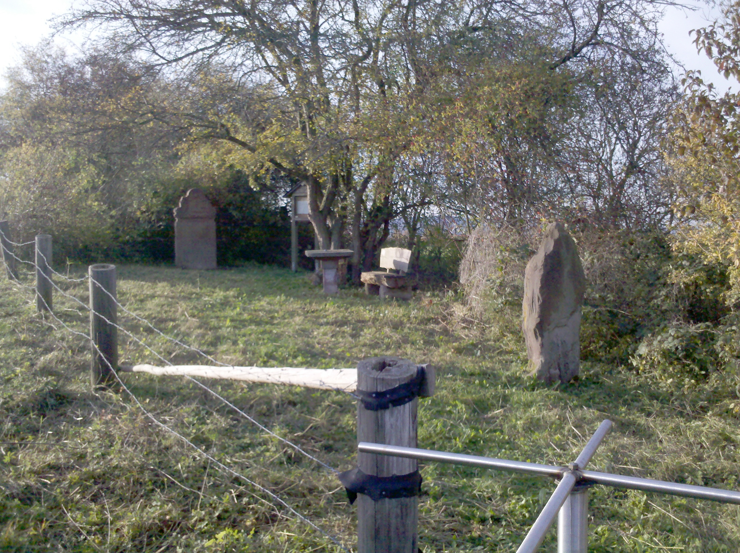 Deer jump memorial between Holtershausen and Greene at Einbeck, Lower Saxony, Germany